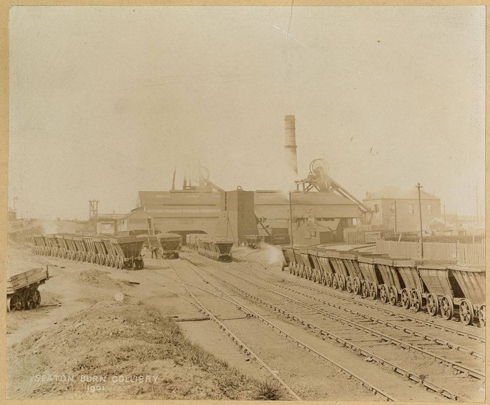 Seaton Burn Colliery near Newcastle upon Tyne in 1901